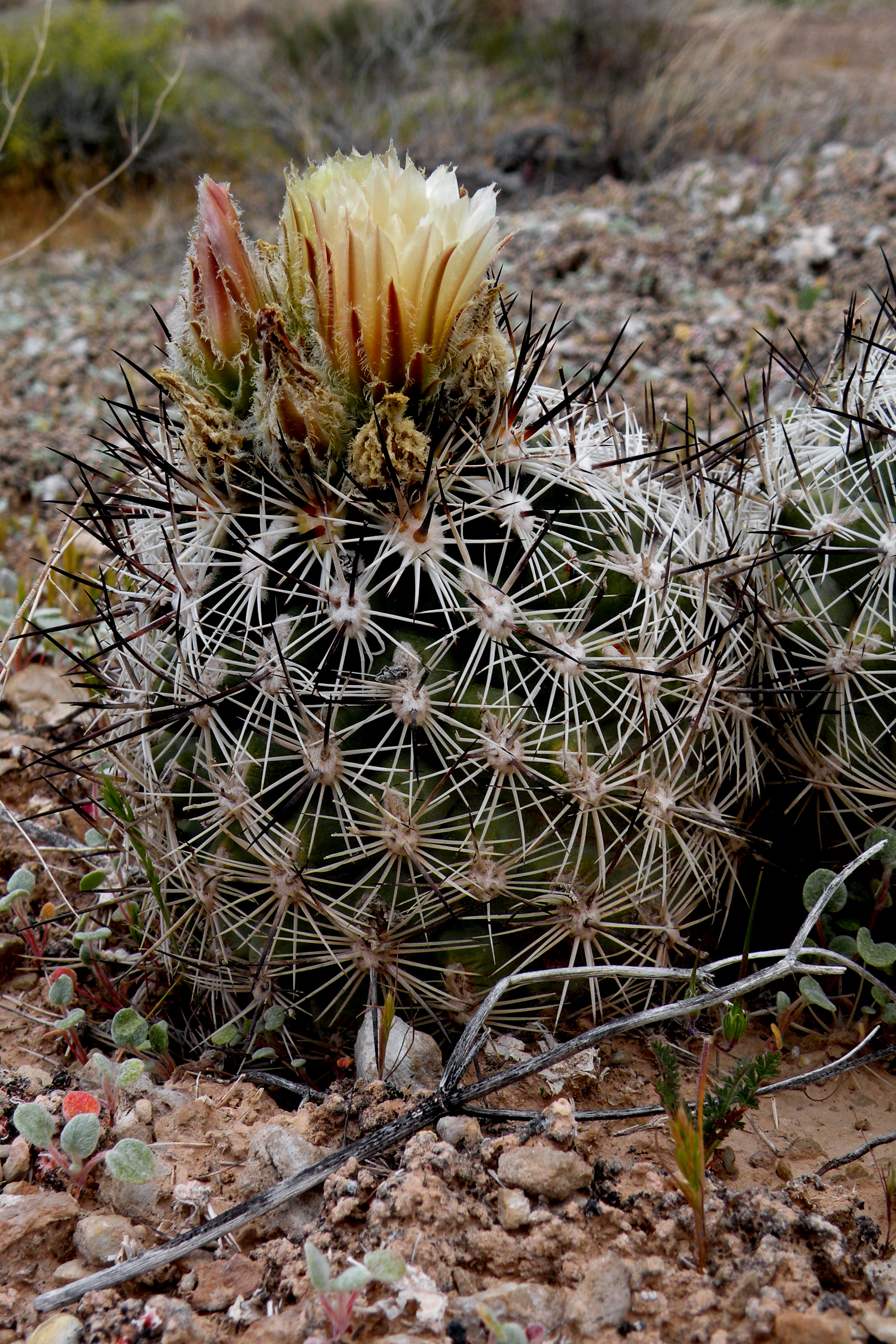 Siler pincushion cactus is restricted to clay soils of the Moenkopi Formation. It occurs on rolling hills and bluffs in sparsely vegetated desert shrub communities between 3,000 and 5,000 ft. in elevation. Siler Pincushion cactus is endemic to northern AZ and southwestern UT. It is listed threatened. Credit: Daniela Roth / USFWS.